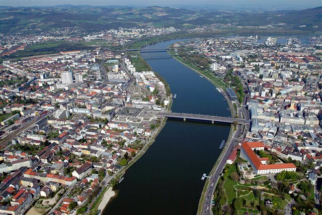 Austria, Linz, Danube